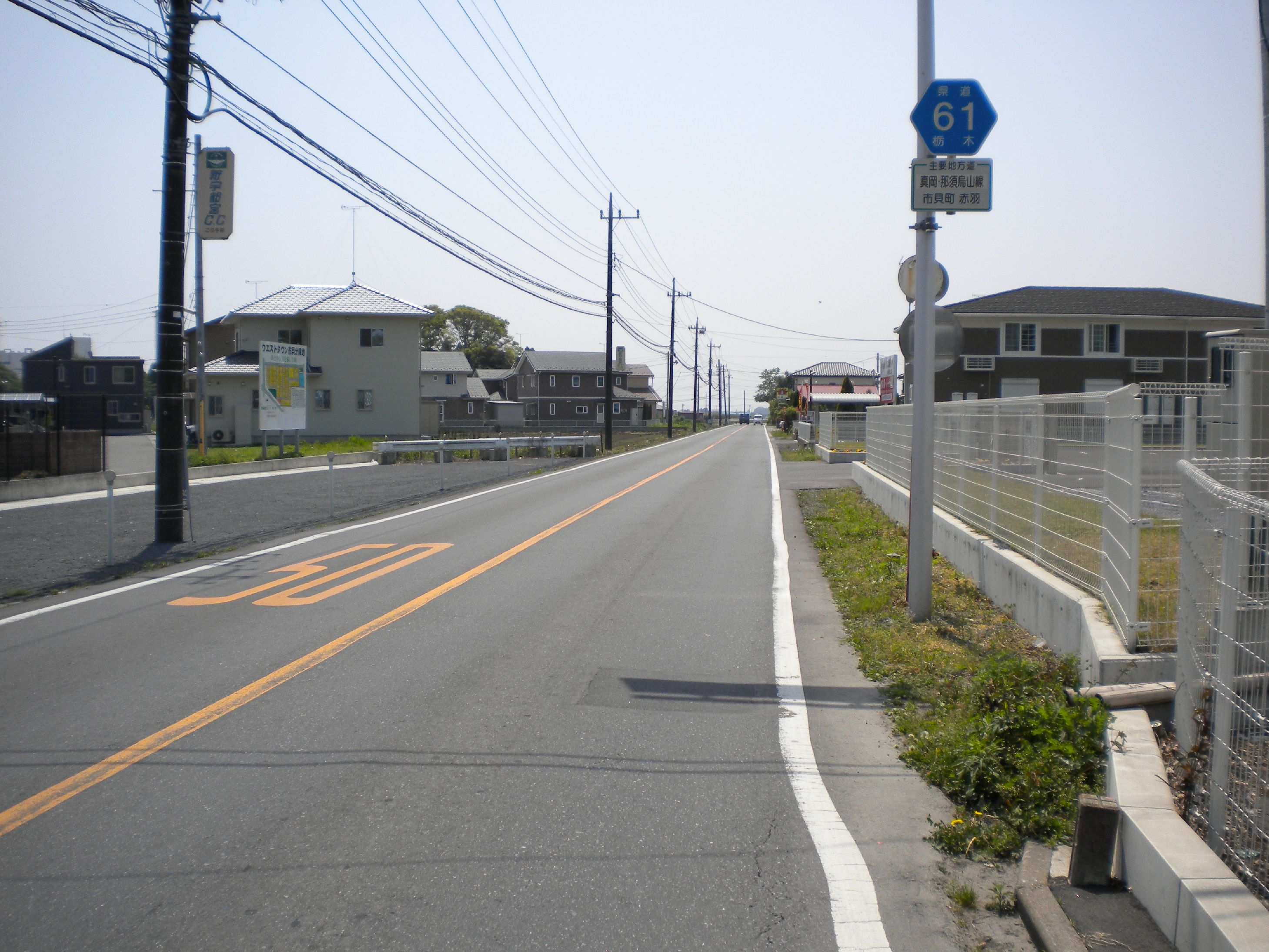 The Tochigi Prefectural Road Route 61 in Akabane, Ichikai Town